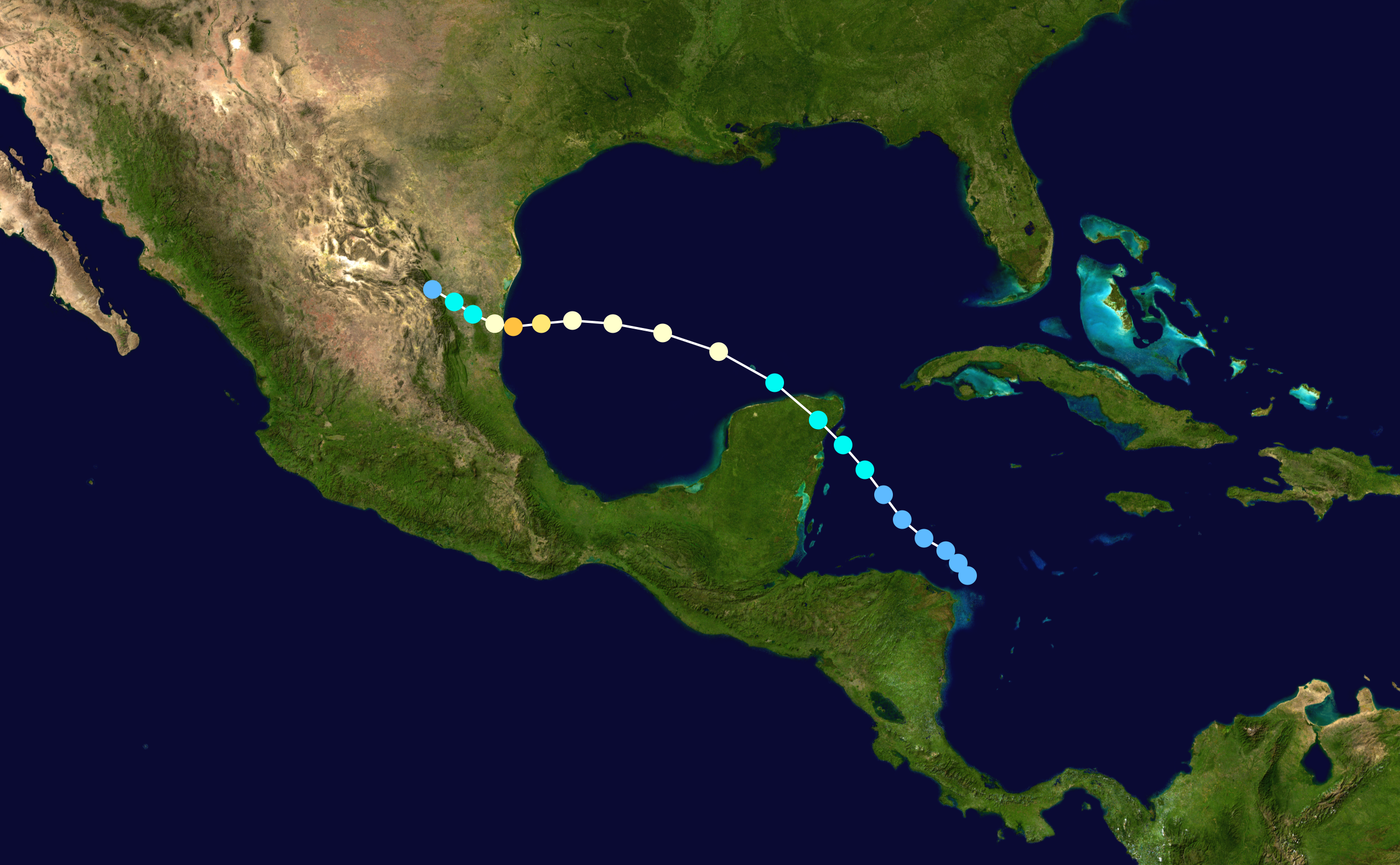 Hurricane Ella (1970) track. Uses the color scheme from the Saffir-Simpson Hurricane Scale.